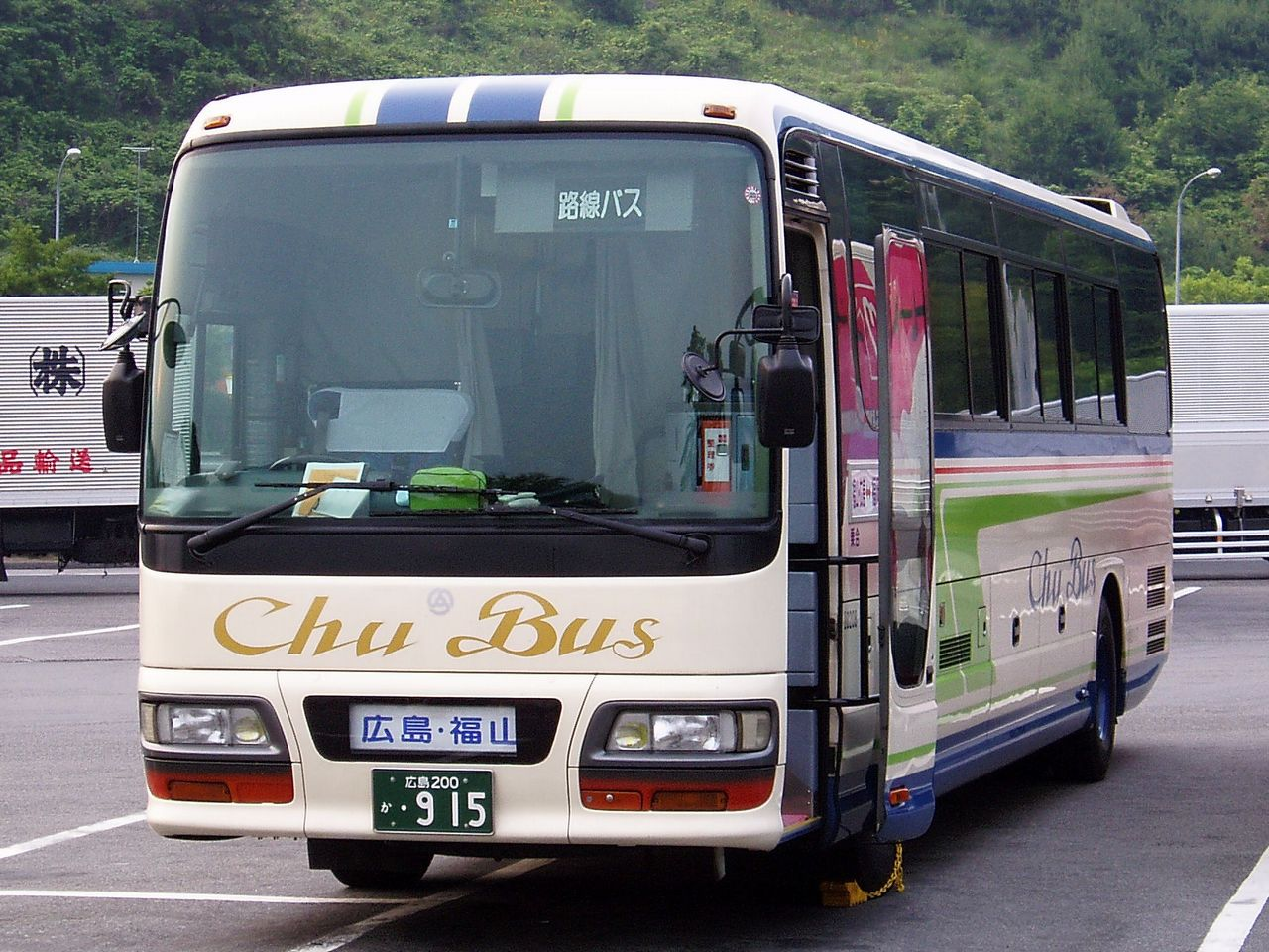 Chugoku Bus I0208 "Kofuku Liner" Isuzu KL-LV781R2 at Numata Perking Area